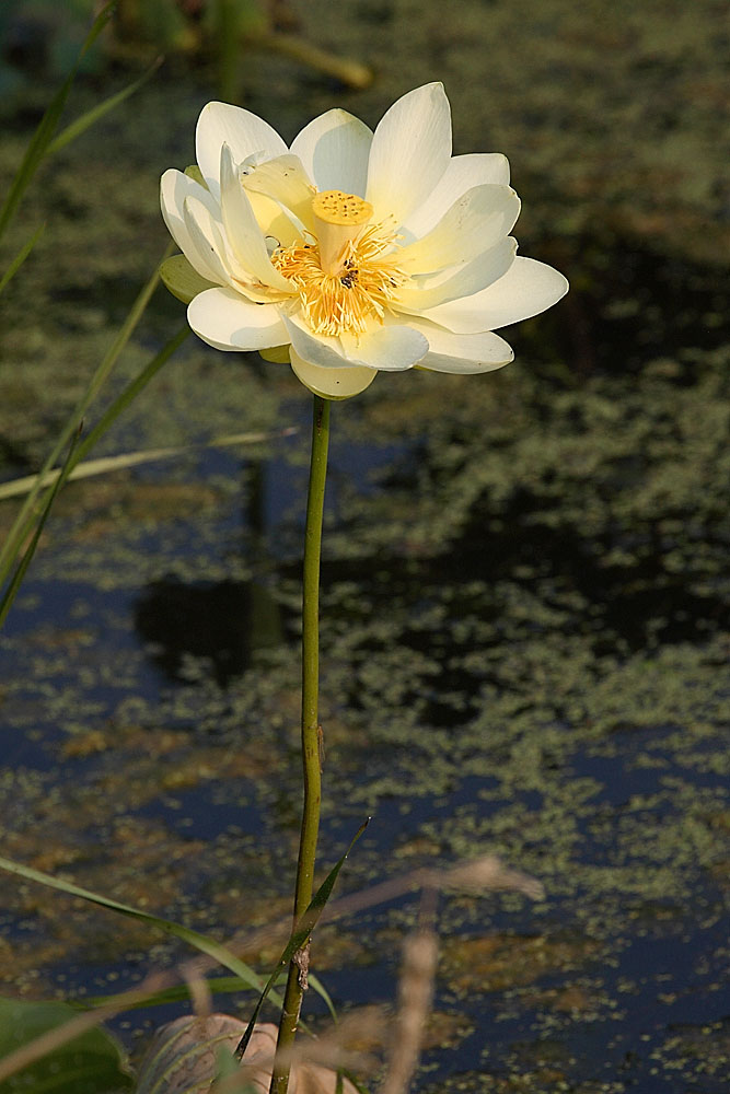 to read more about the American Lotus and Lake Erie Metro Park, Brownstown, Michigan